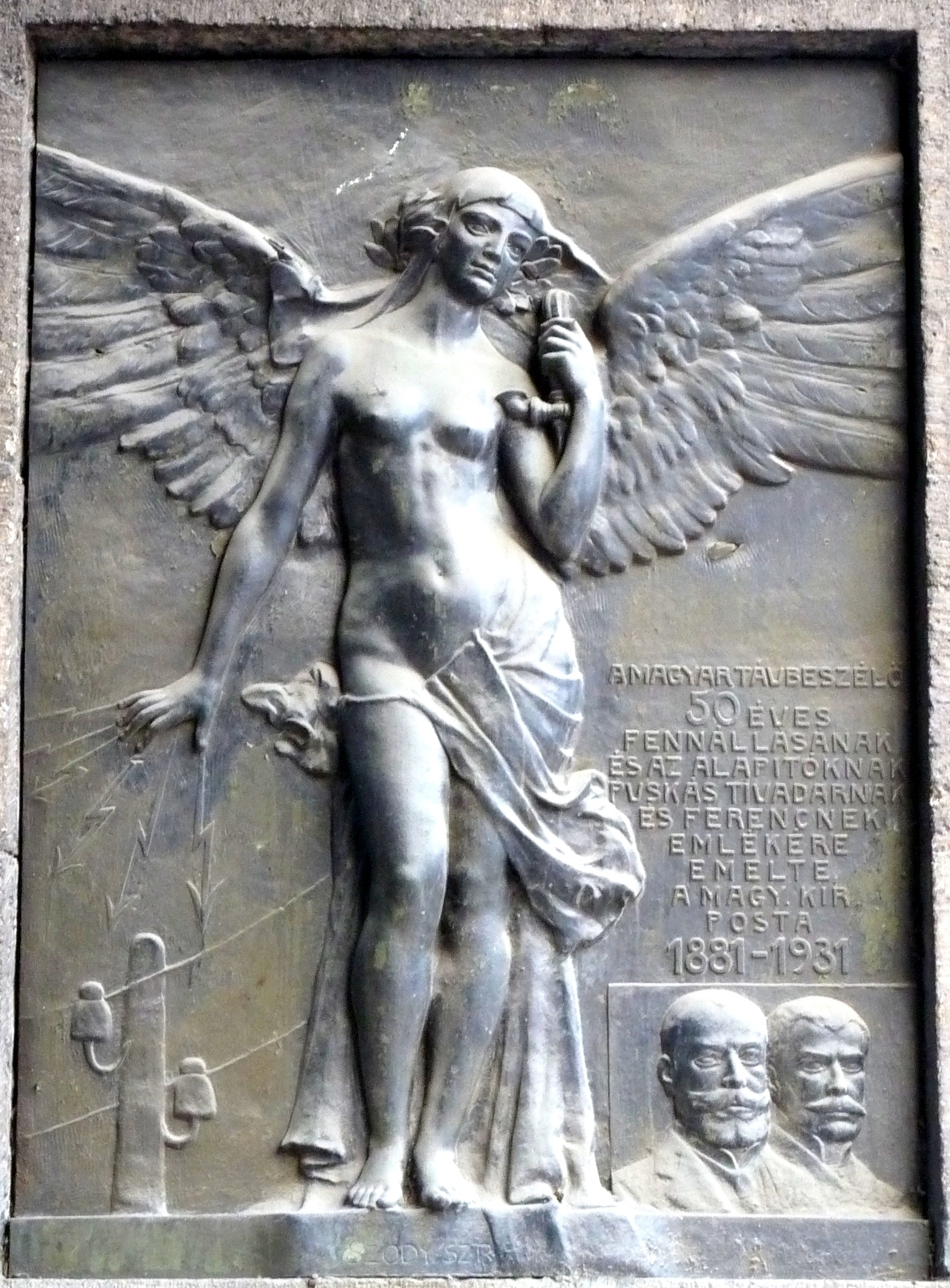 Commemorative plaque to Mr. Tivadar Puskás (1844–1893) Hungarian inventor, telephone pioneer and his brother, Mr Ferenc Puskás (1848-1884) the builder and the director of the first telephone exchange in Budapest. It is affixed on the wall of the building of the former telephone exchange “József” to mark the 50th anniversary of its construction. Author of the bronz relief is Mr. Szilárd Sződy. (Budapest, District VIII, Horváth Mihály Square Nr 18).